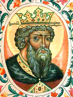 Vladimir I the Red Sun the Saint. Miniature from “Tsarsky titularnik”, 1672